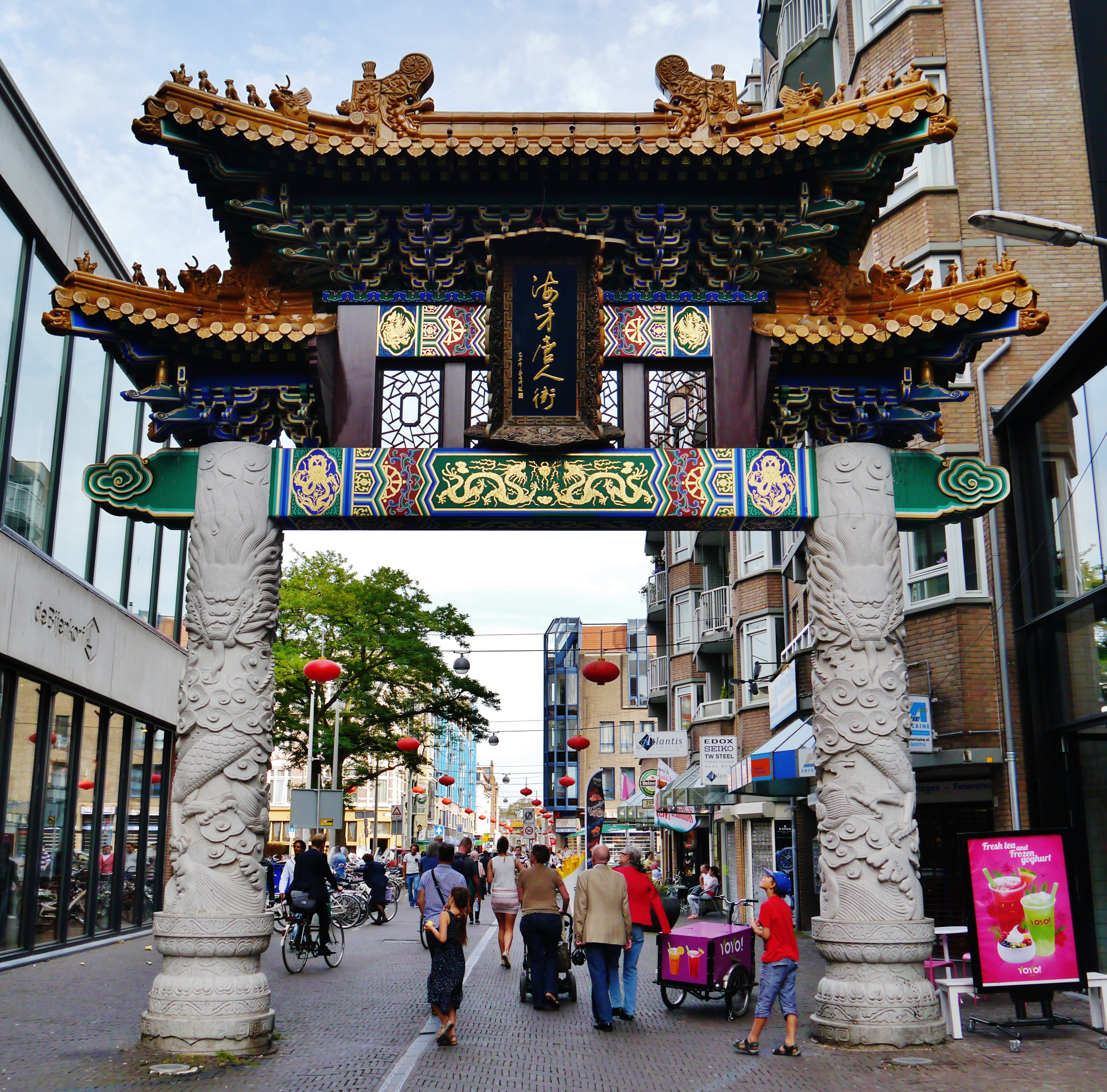 Entrance Gate of the Chinatown, The Hague, Province of South Holland, Netherlands